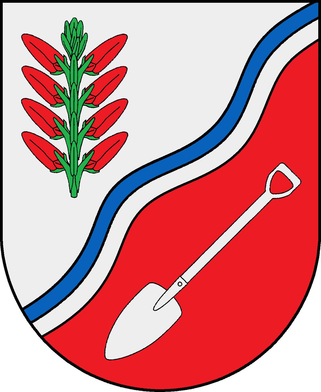 Coat of arms of the municipality Heidgraben in Schleswig-Holstein, Germany.